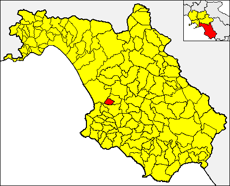 Locator map of the municipality of Giungano (red) within the Province of Salerno